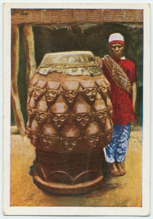 Cameroon drummer. Cigarette card. "Exotic people" series, by M. Melachrino & Co.